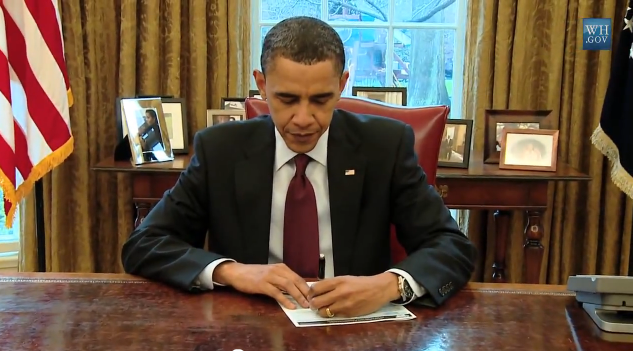 President Obama filling out his 2010 census form West Wing Week episode 1 Future Planes of the Future (Public domain - Work of federal government)